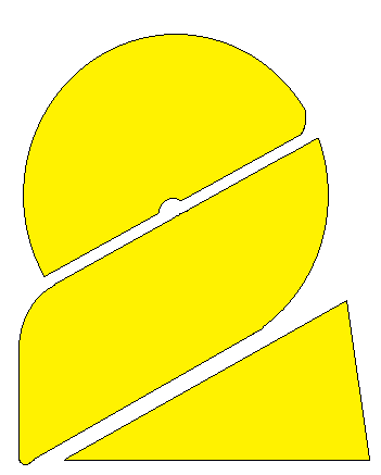 Logo of the Polish TV 2nd Channel (TVP2) from years 1987-1992